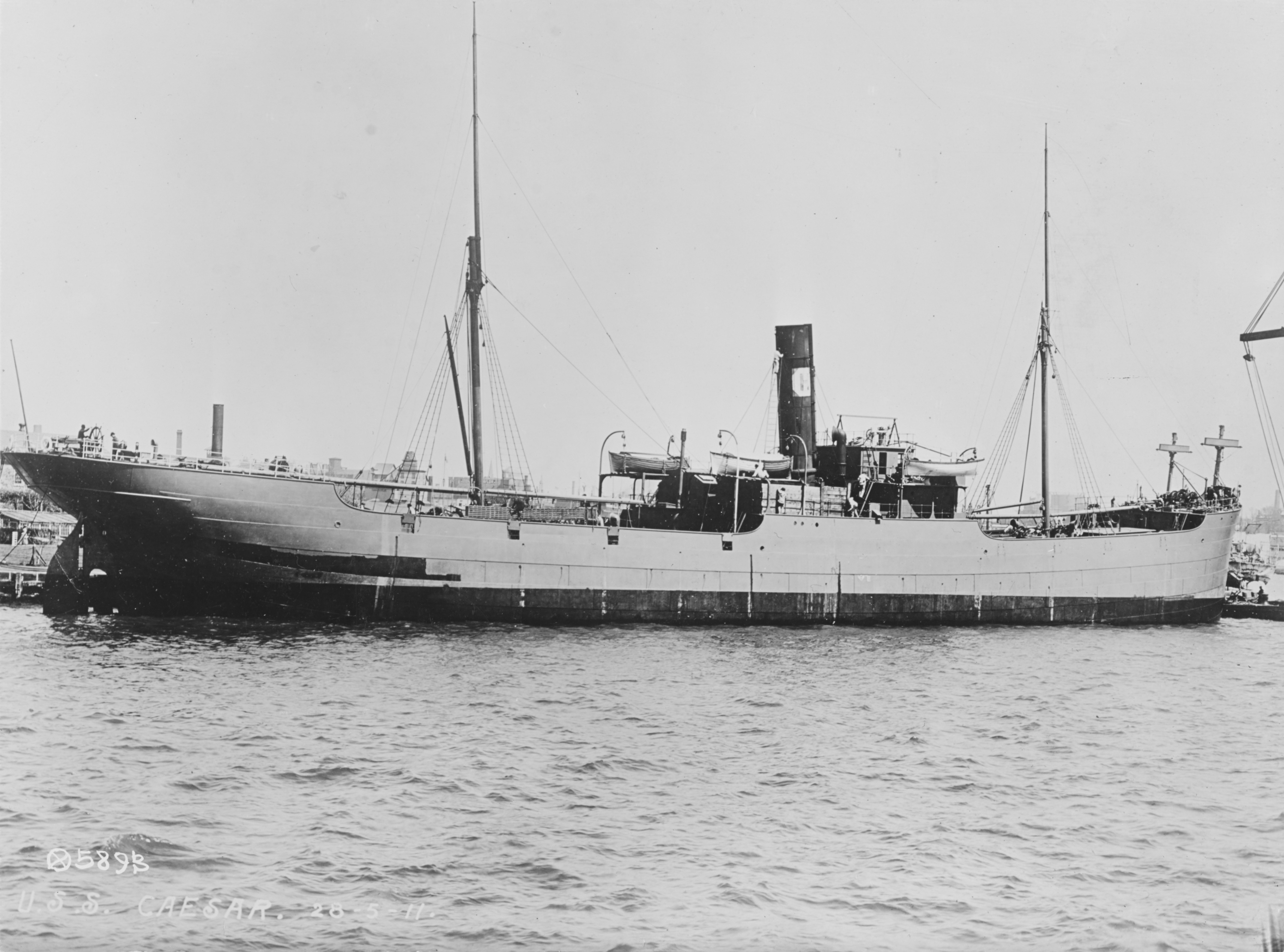 (1898-1922) In port, possibly while fitting out for Navy service in April-May 1898. Photograph from the Bureau of Ships Collection in the U.S. National Archives.